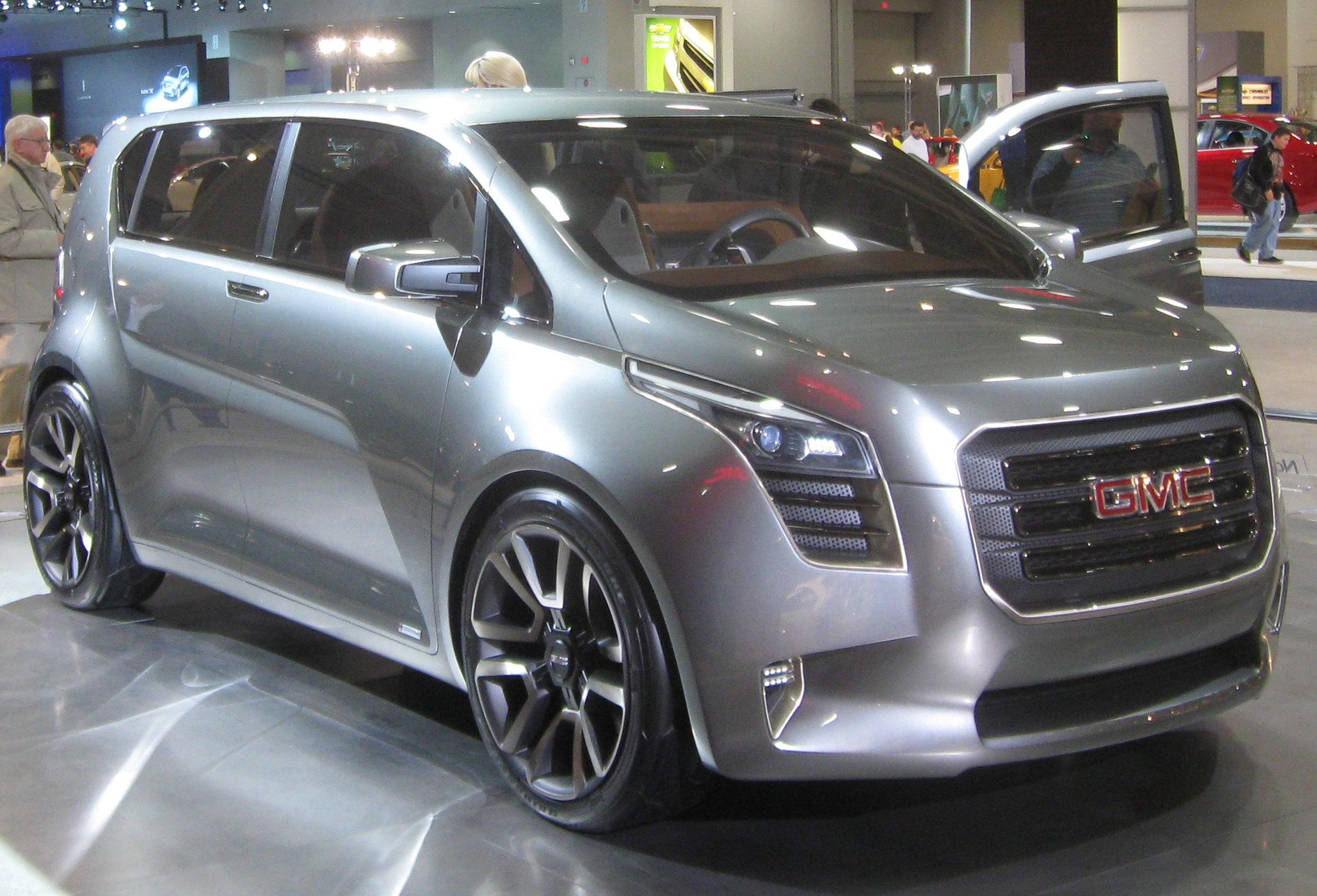 GMC Granite photographed at the 2010 Washington Auto Show.